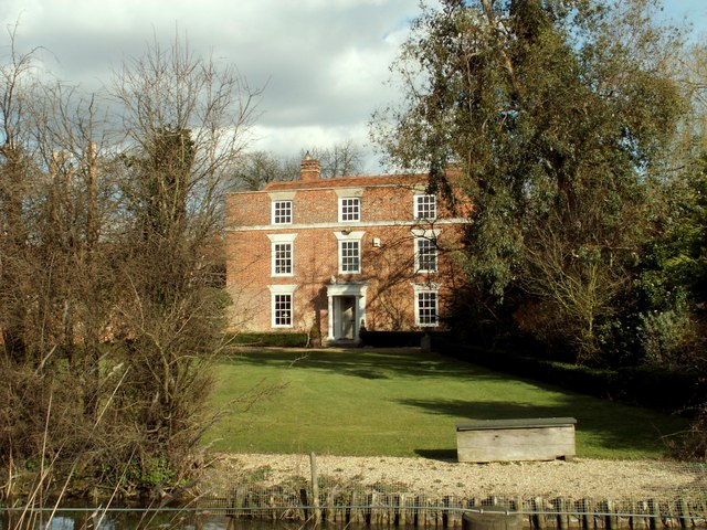 The farmhouse at Moat Farm This is the view from Turkey Cock Lane.